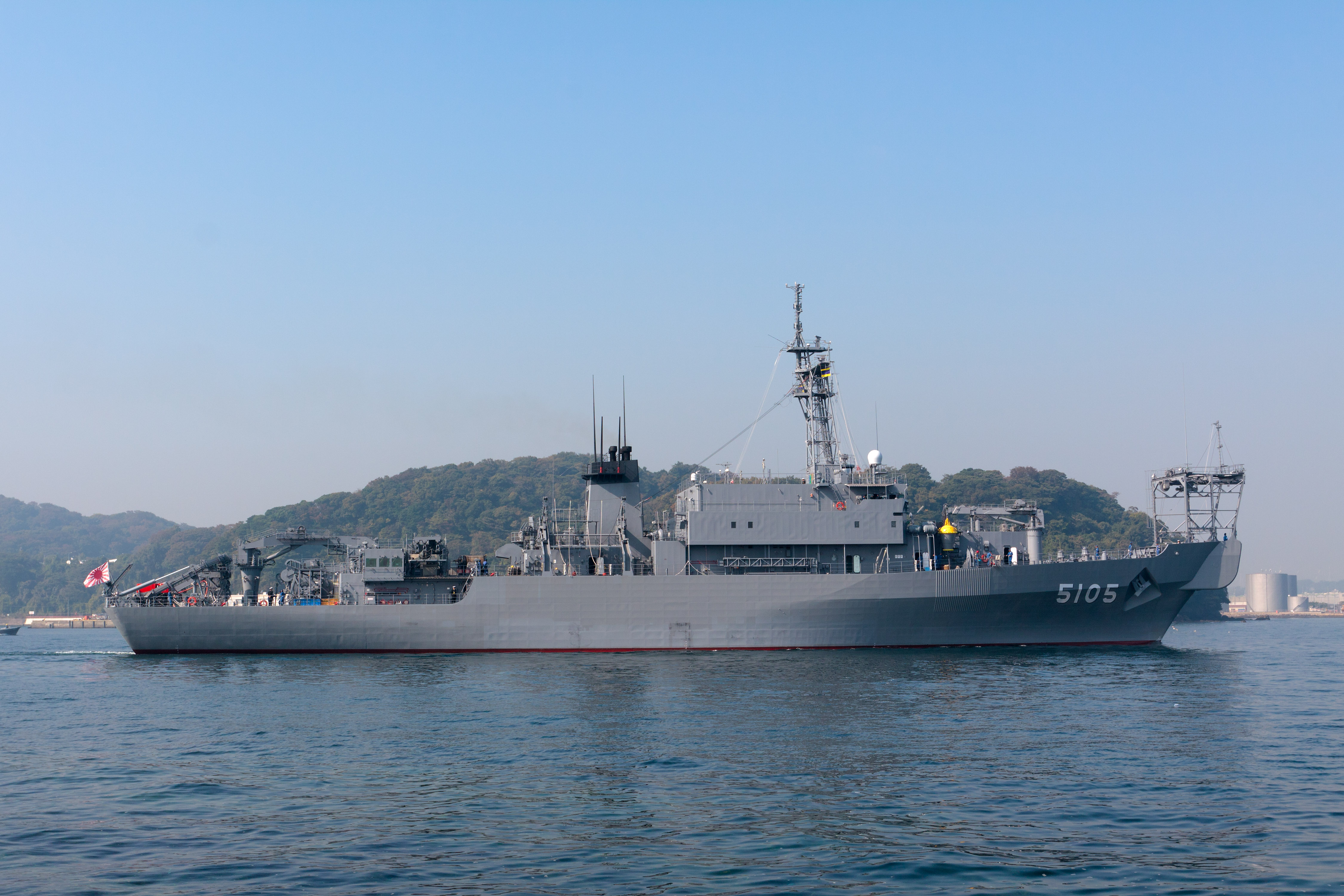 JS Nichinan (AGS-5105) departs the port of Yokosuka. Canon EOS 50D + EF 17-40mm F4L USM